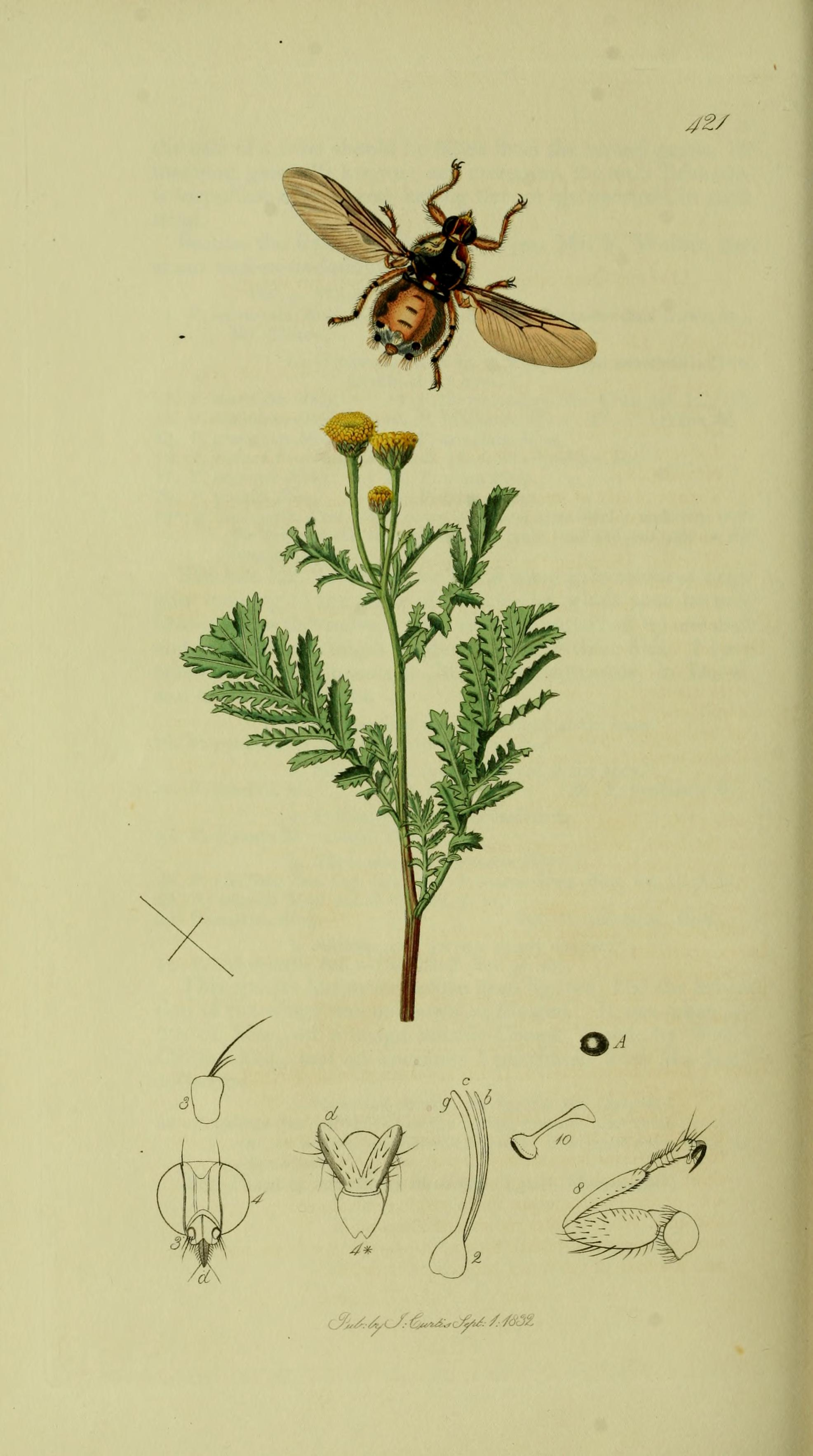 John Curtis British Entomology (1824-1840) Folio 421 Diptera:Hippobosca equina (Horse-fly or Ked).The plant is Tanacetum vulgare (Common Tansy).